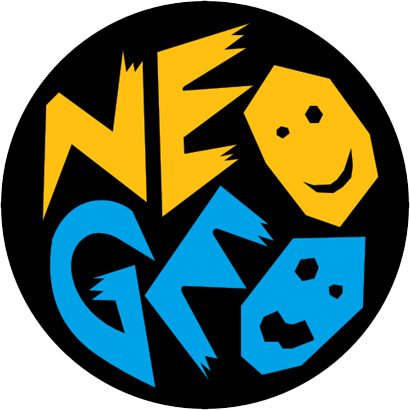 Neo Geo logo